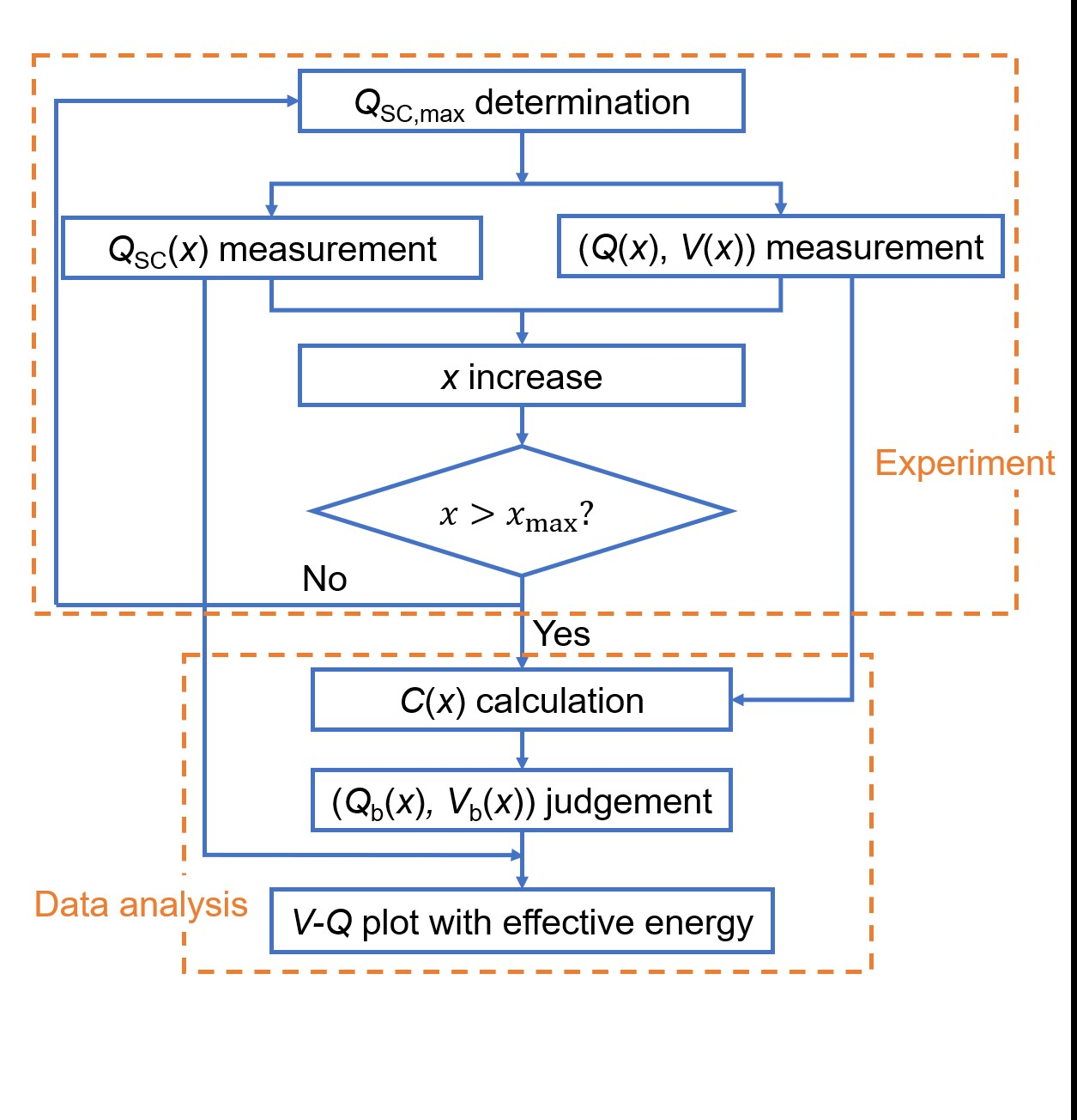 Breakdown measurement process